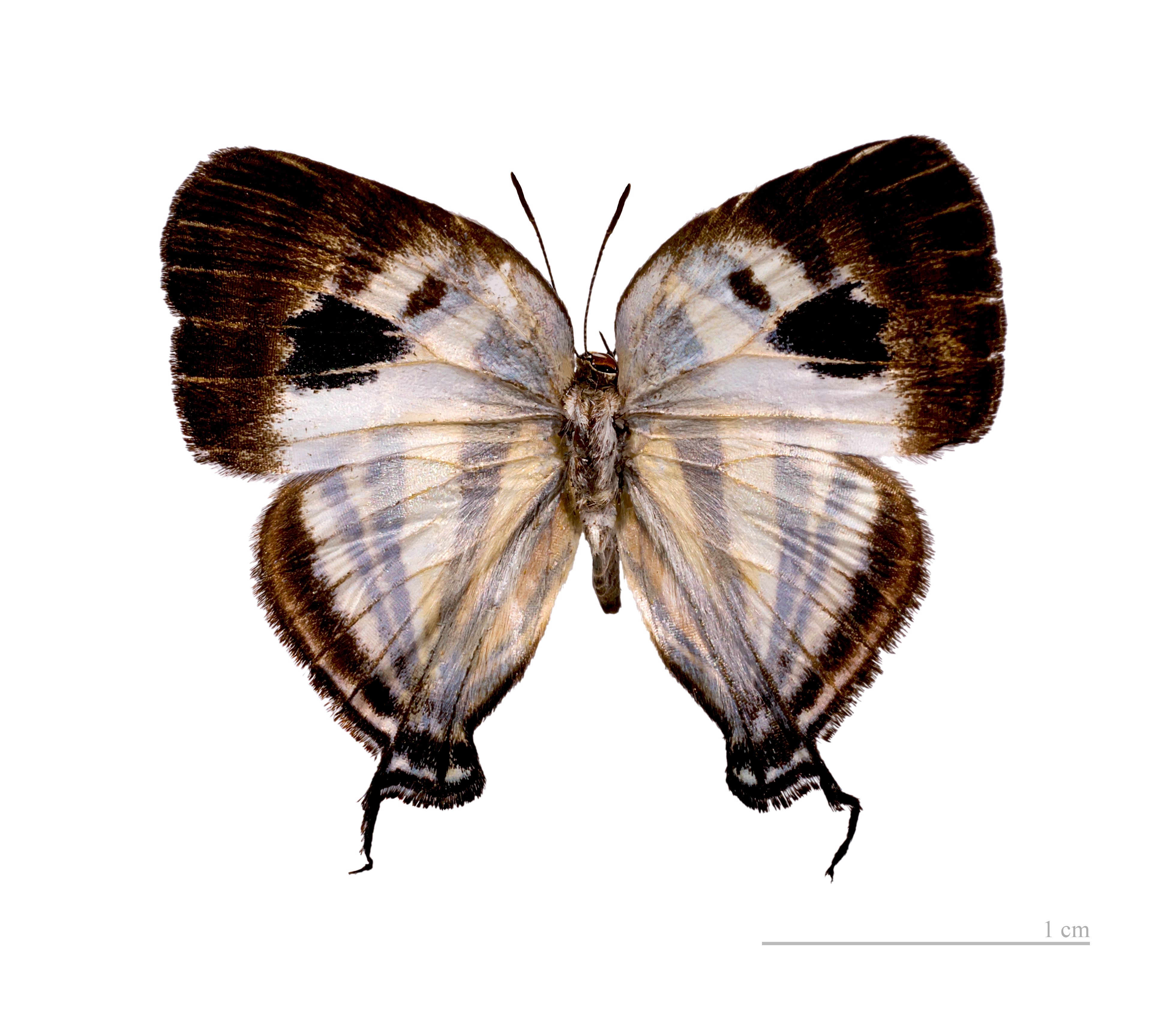 ♂ - Dorsal side Locality : Lac Rorota, Montjoly, French Guiana.